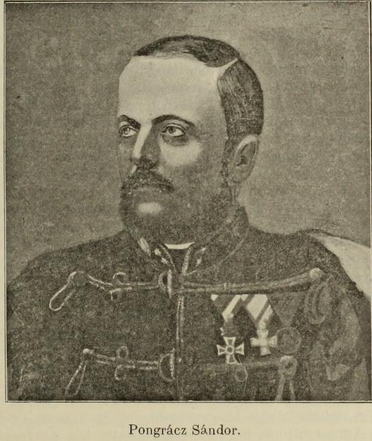 Portrait of Pongrácz Sándor